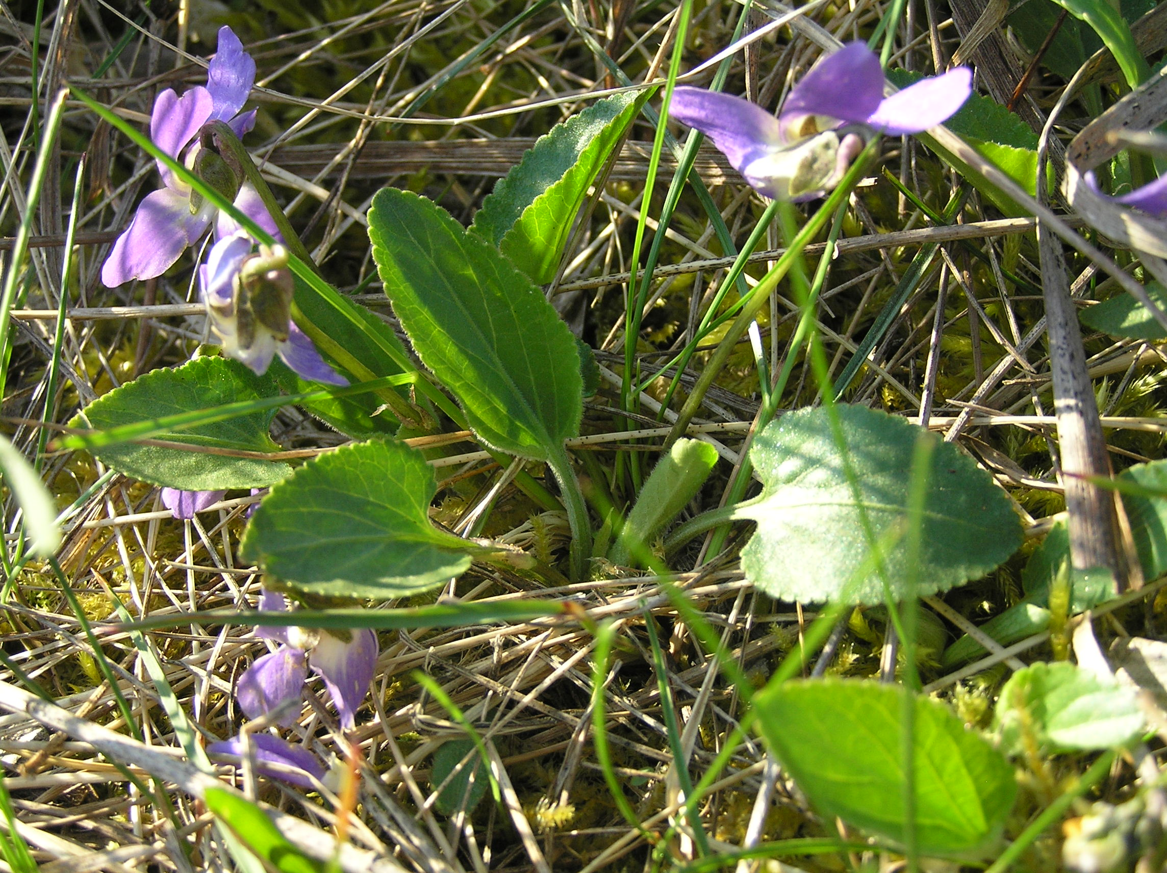 Viola ambigua, the hill Śibeničník near the town Mikulov, Southern Moravia, Czech Republic